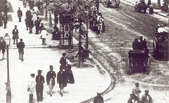 Stereoscopic photography by Hippolyte Jouvin.